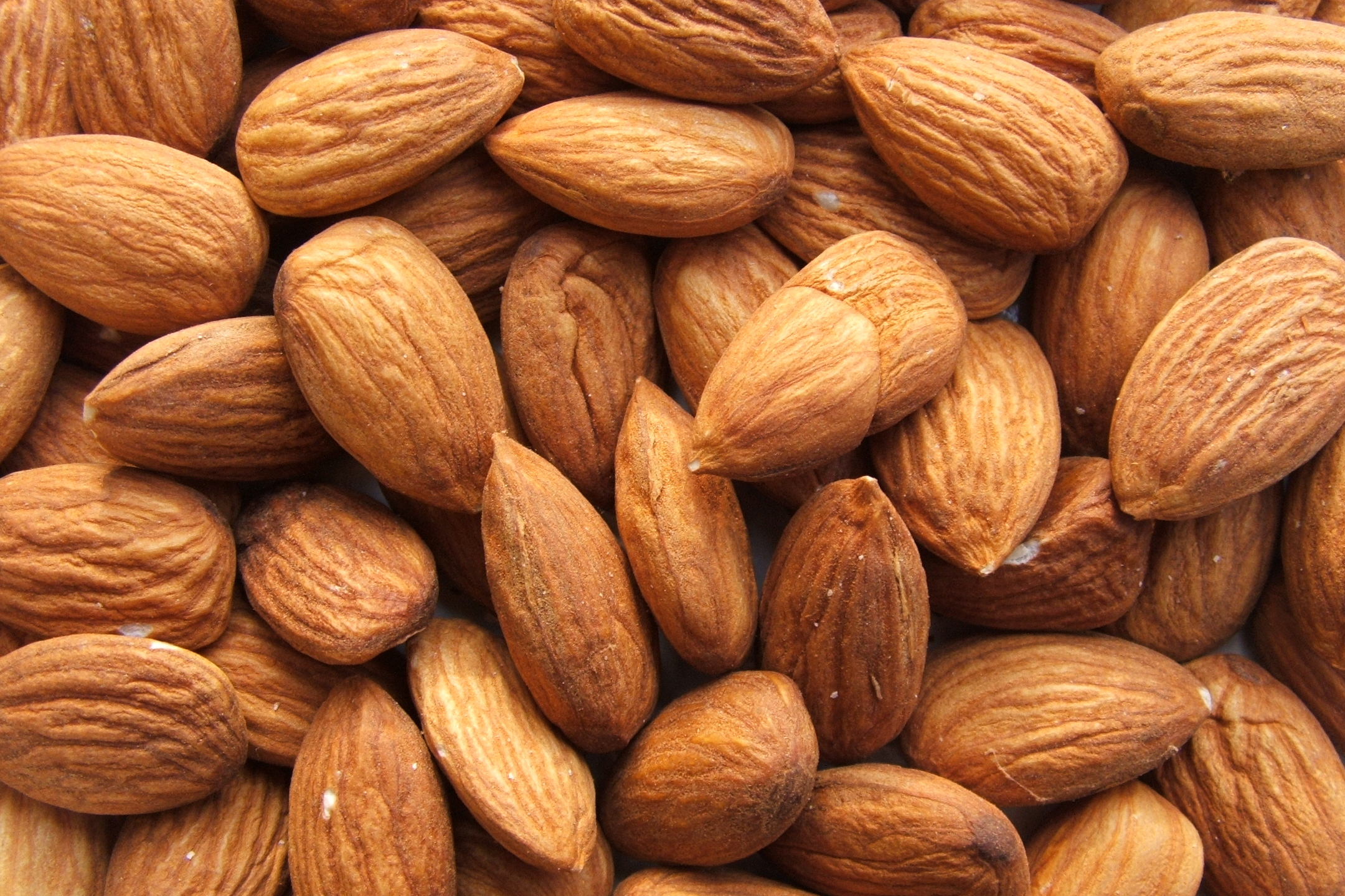 Shelled almonds (Prunus dulcis)